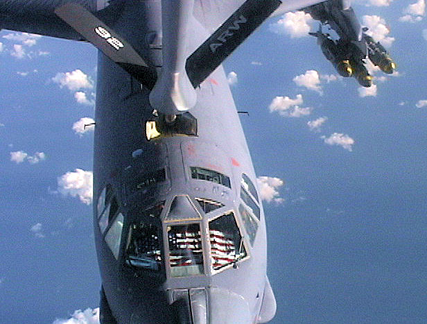 OPERATION IRAQI FREEDOM -- A KC-135 Stratotanker, 28th Expeditionary Air Refueling Squadron, refuels a B-52 Stratofortress bomber, 40th Air Expeditionary Wing, during A-day. The B-52 took part in the "Shock and Awe" campaign, Operation Iraqi Freedom. Coalition aircraft flew missions against more than 100 targets in Iraq in efforts to oust Saddam Hussein's regime.